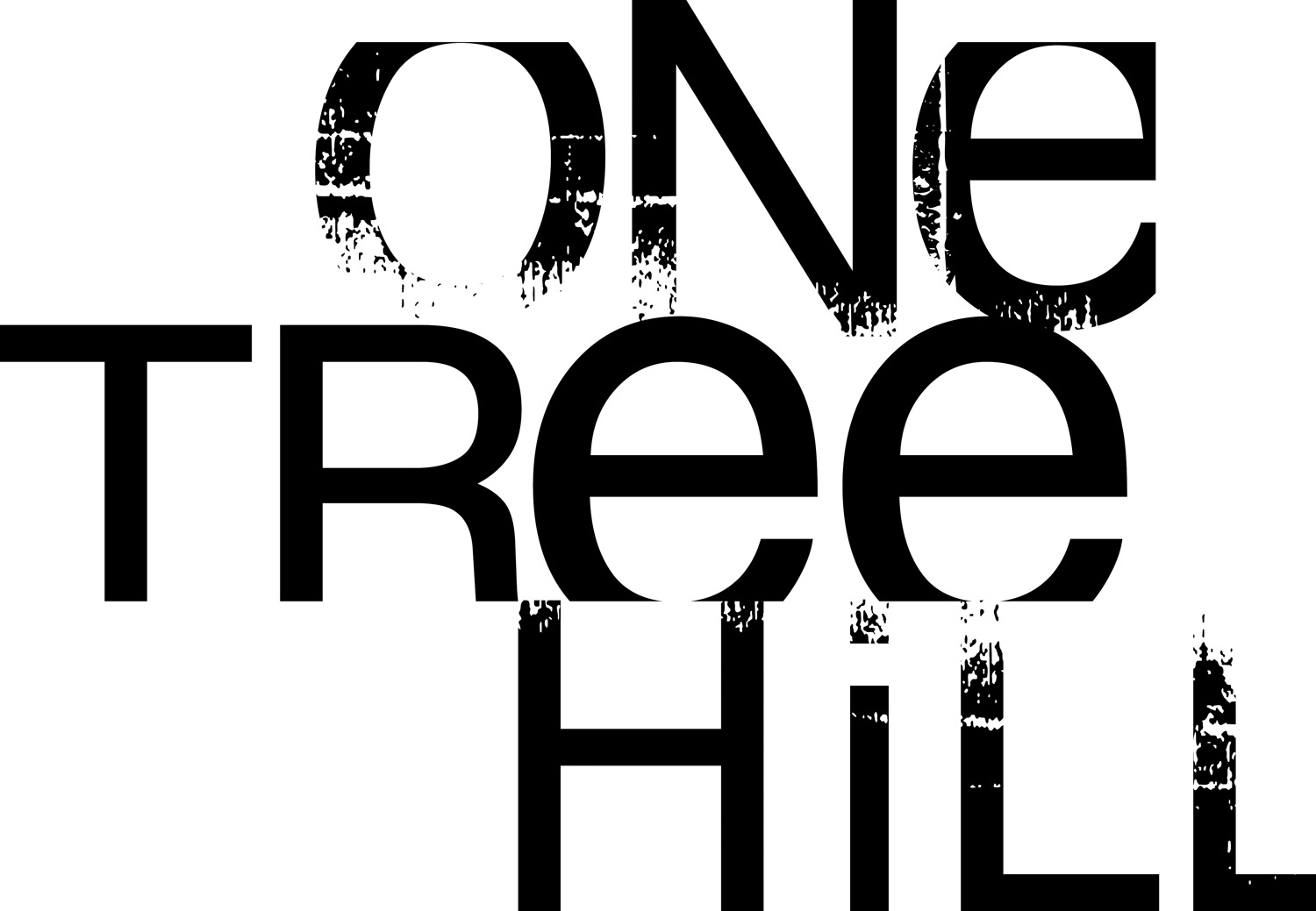 OTH LOGO